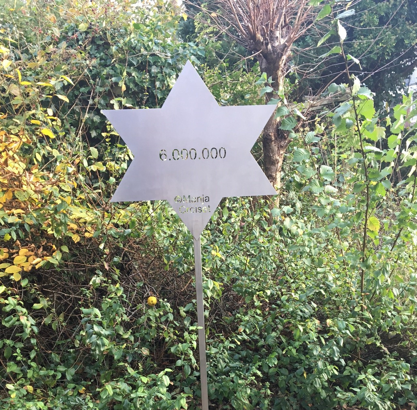 Davidster buiten uitgesneden